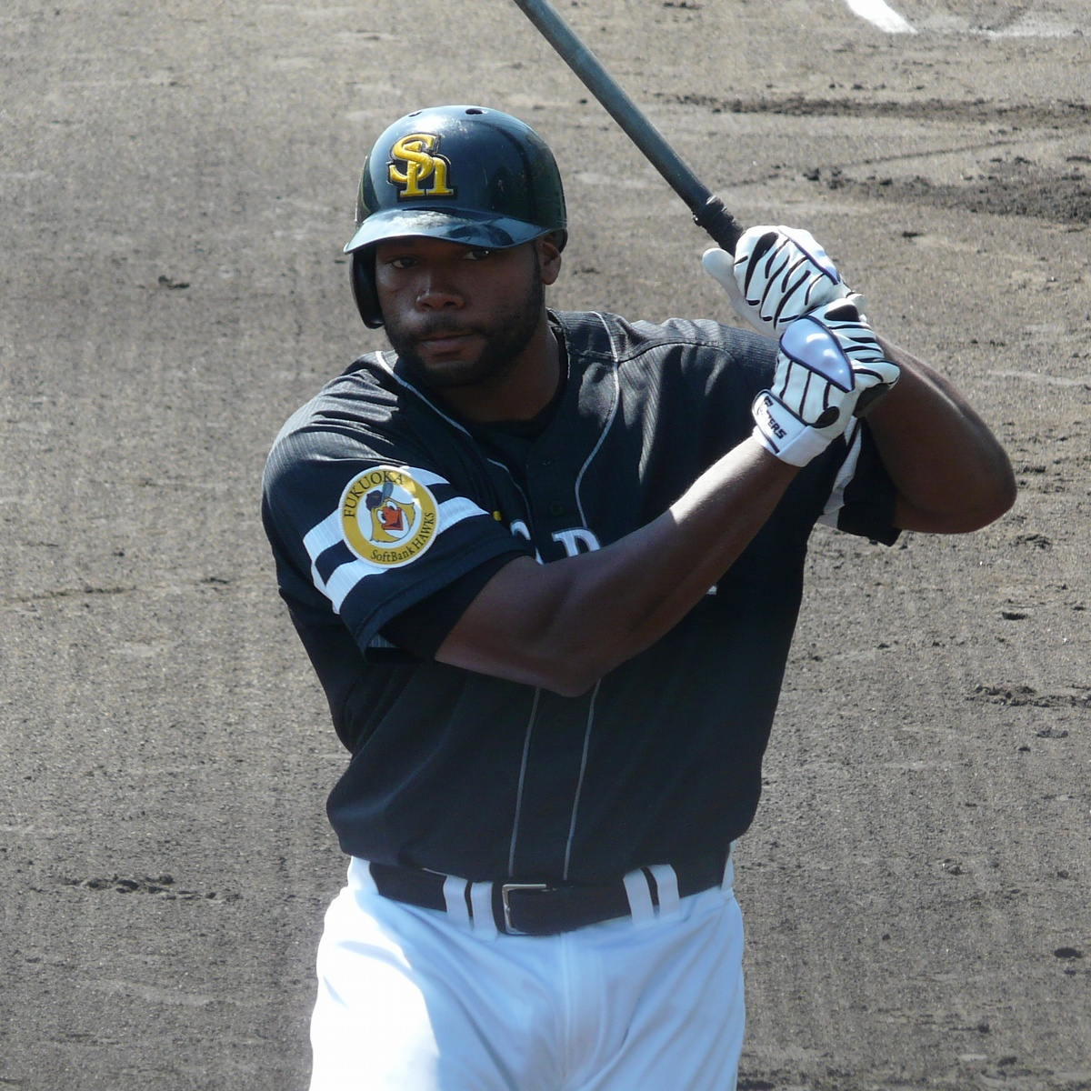 SH-Brandon-Allen20120919